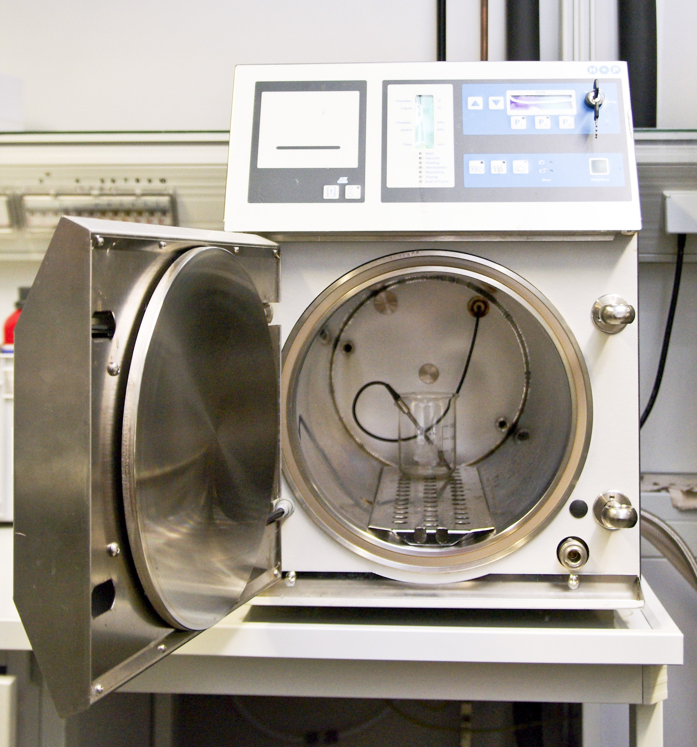 Small benchtop laboratory autoclave